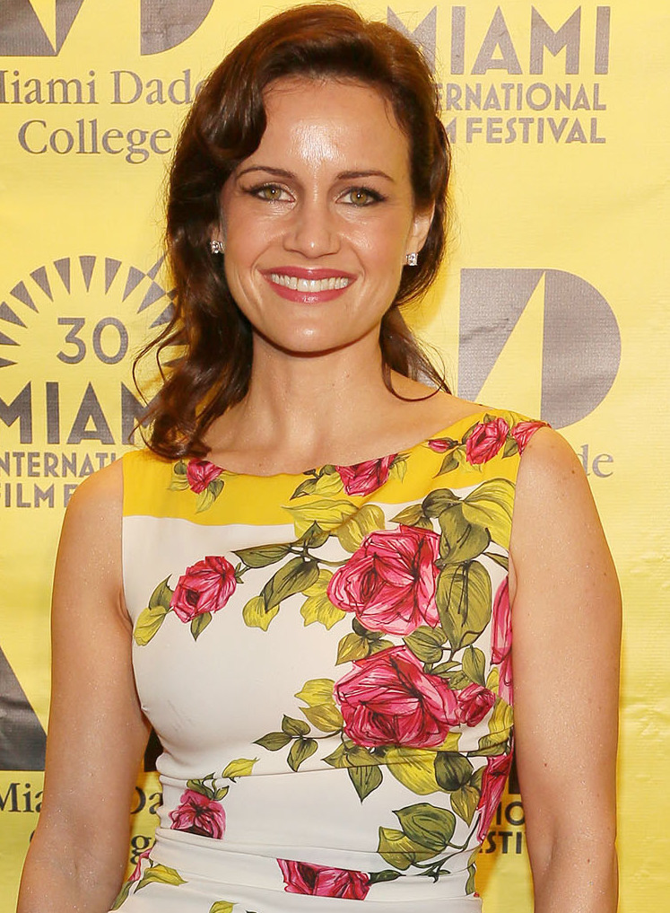 Carla Gugino at the Cast Reunion screening + party of the 1995 classic "Miami Rhapsody" at the 2013 Miami International Film Festival